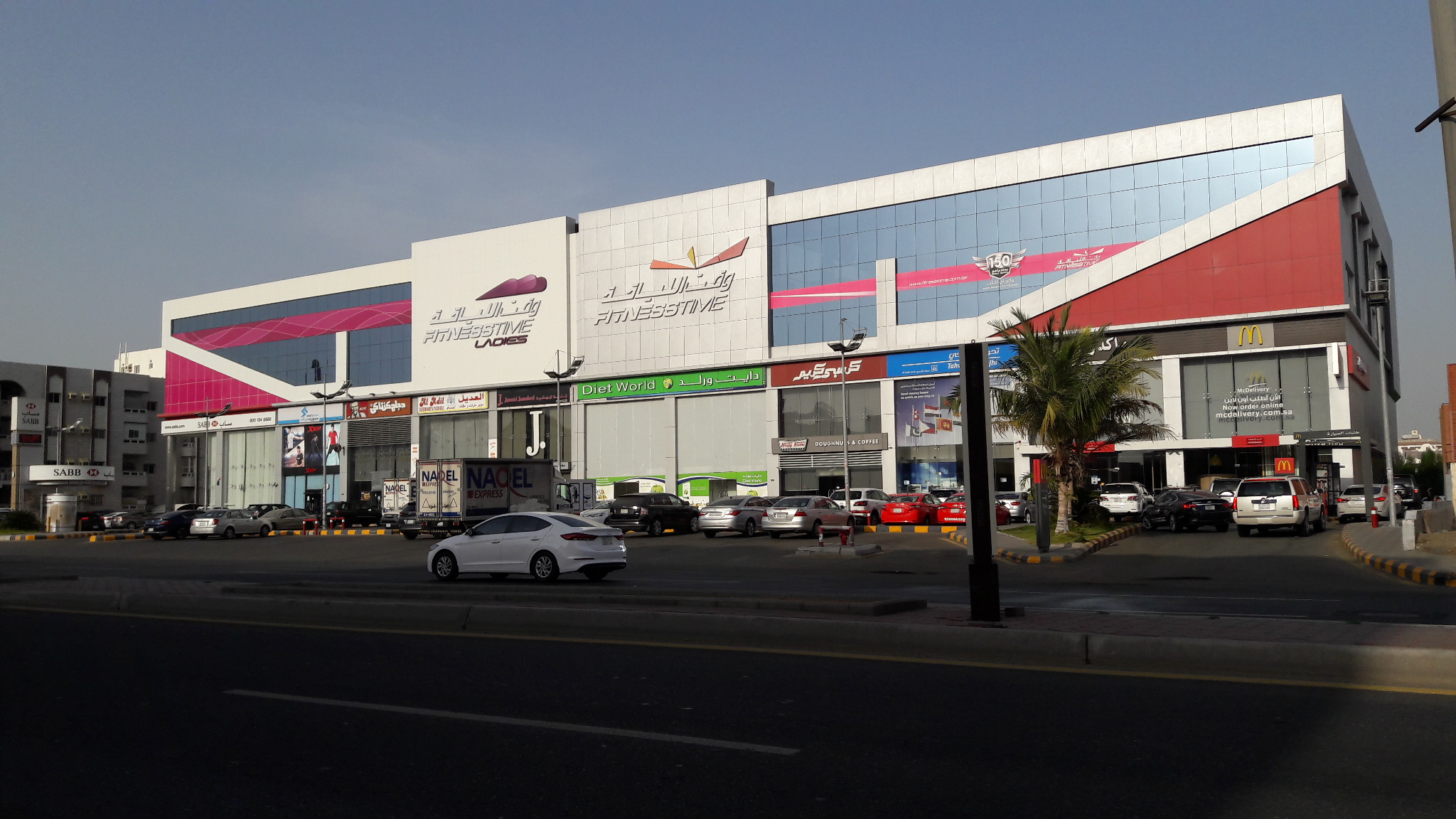 Fitness Time Ladies